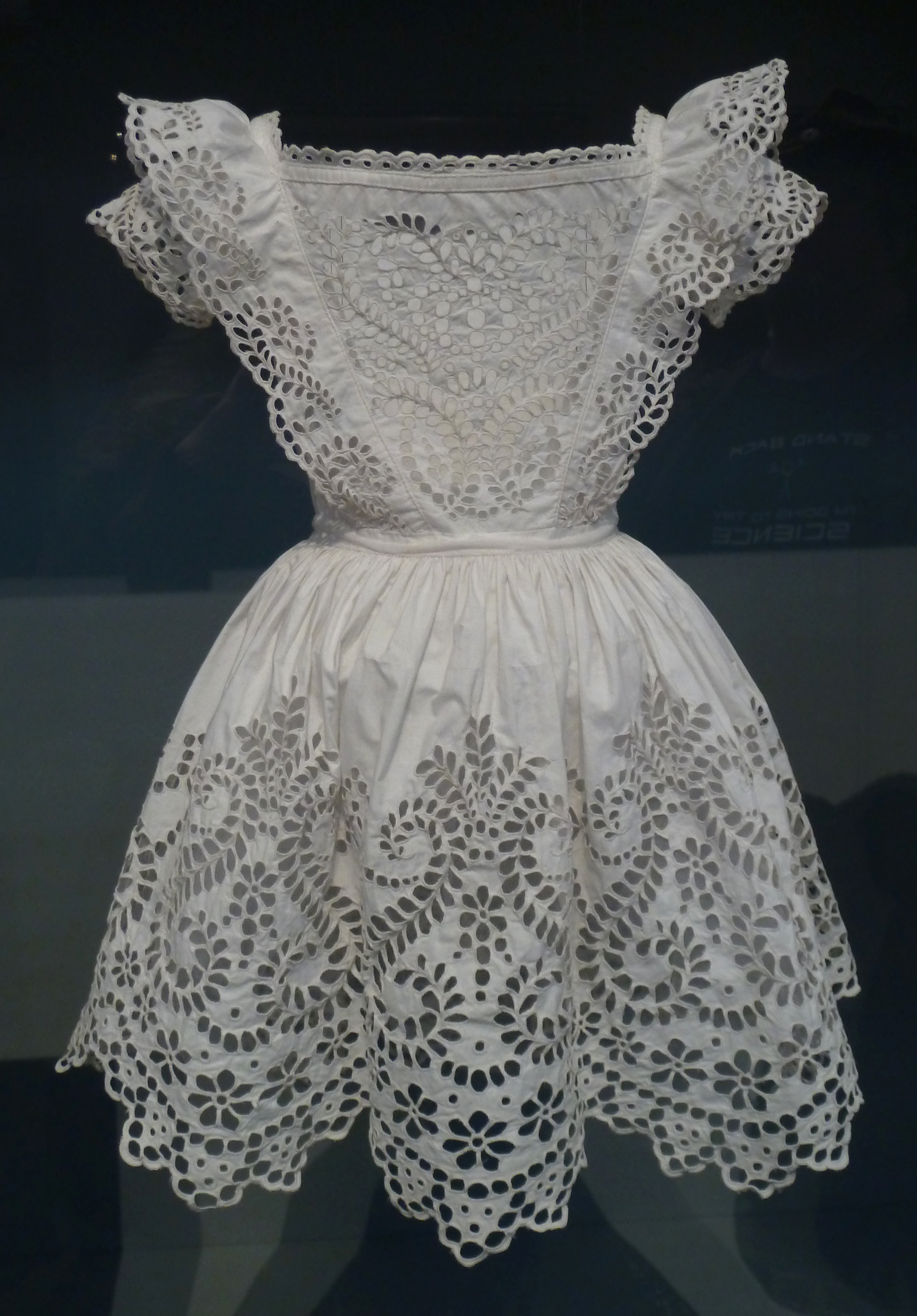 Boy's frock, white plain-weave cotton with whitework broderie anglaise, probably English, c. 1855. Los Angeles County Museum of Art M.2007.211.89